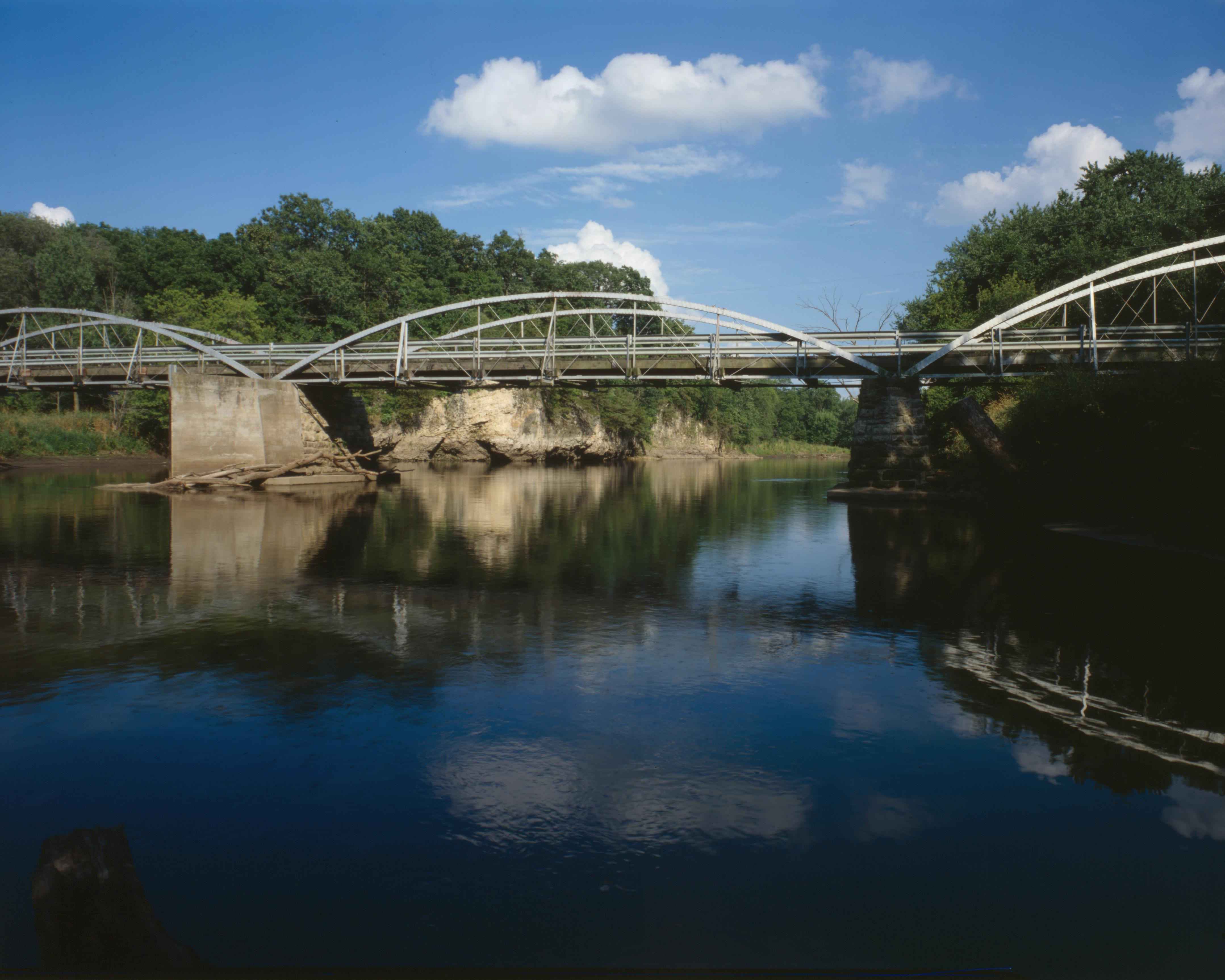 Western (upsteam) side of the Hale Bridge, which carries 100th Street over the Wapsipinicon River west of Oxford Junction in Hale Township, Jones County, Iowa, United States. Built in 1877, the bowstring through arch truss bridge is listed on the National Register of Historic Places.